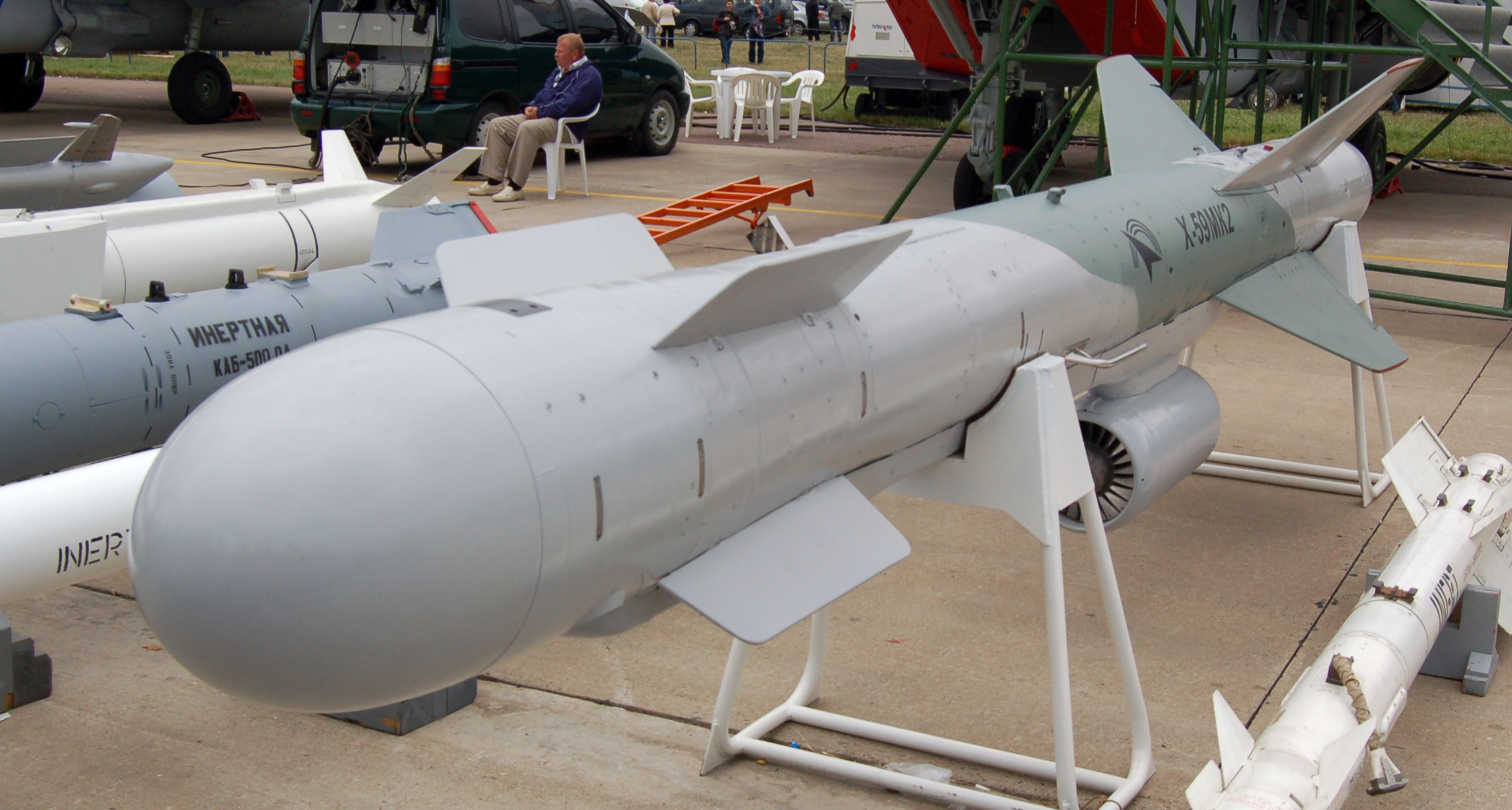 Kh-59MK2